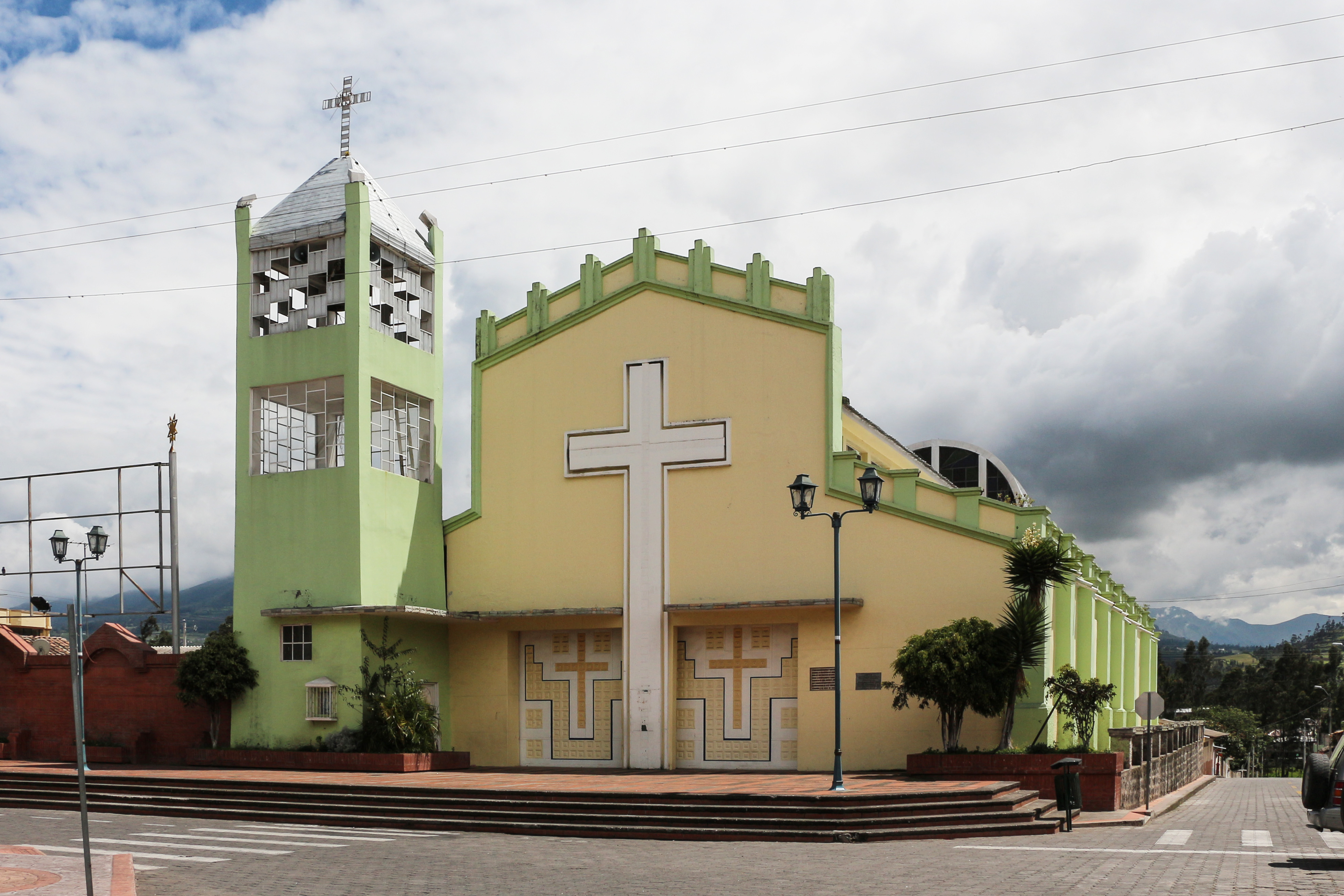 Iglesia de la Dolorosa, Cotacachi, Écuador